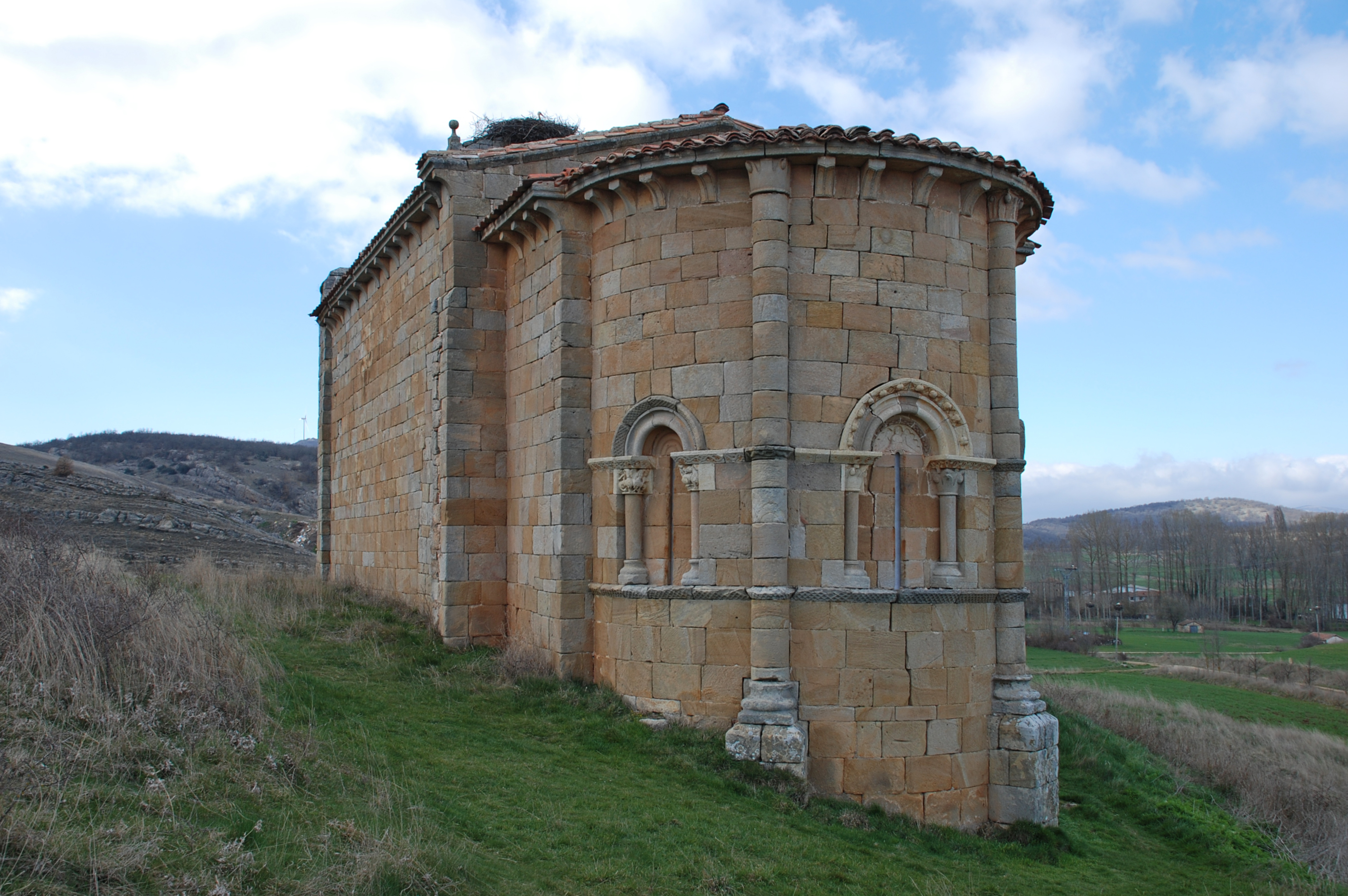 Chapel of Santa Eulalia in the Barrio de Santa María of Aguilar de Campoo (province of Palencia, Castile and León, Spain). Old Parish Church of the medieval outback of the same name that the building is dedicated. It was declared A historic-artistic monument in 1966. It is one of the jewels of the Romanesque in province of Palencia. Whole, harmonic and small shapes and defines the Romanesque palentine North mountain. Its plant consists of a single nave closed in semicircular apse. Its cover closes to the North, not usual in these buildings since the coldest wind coming from that direction.